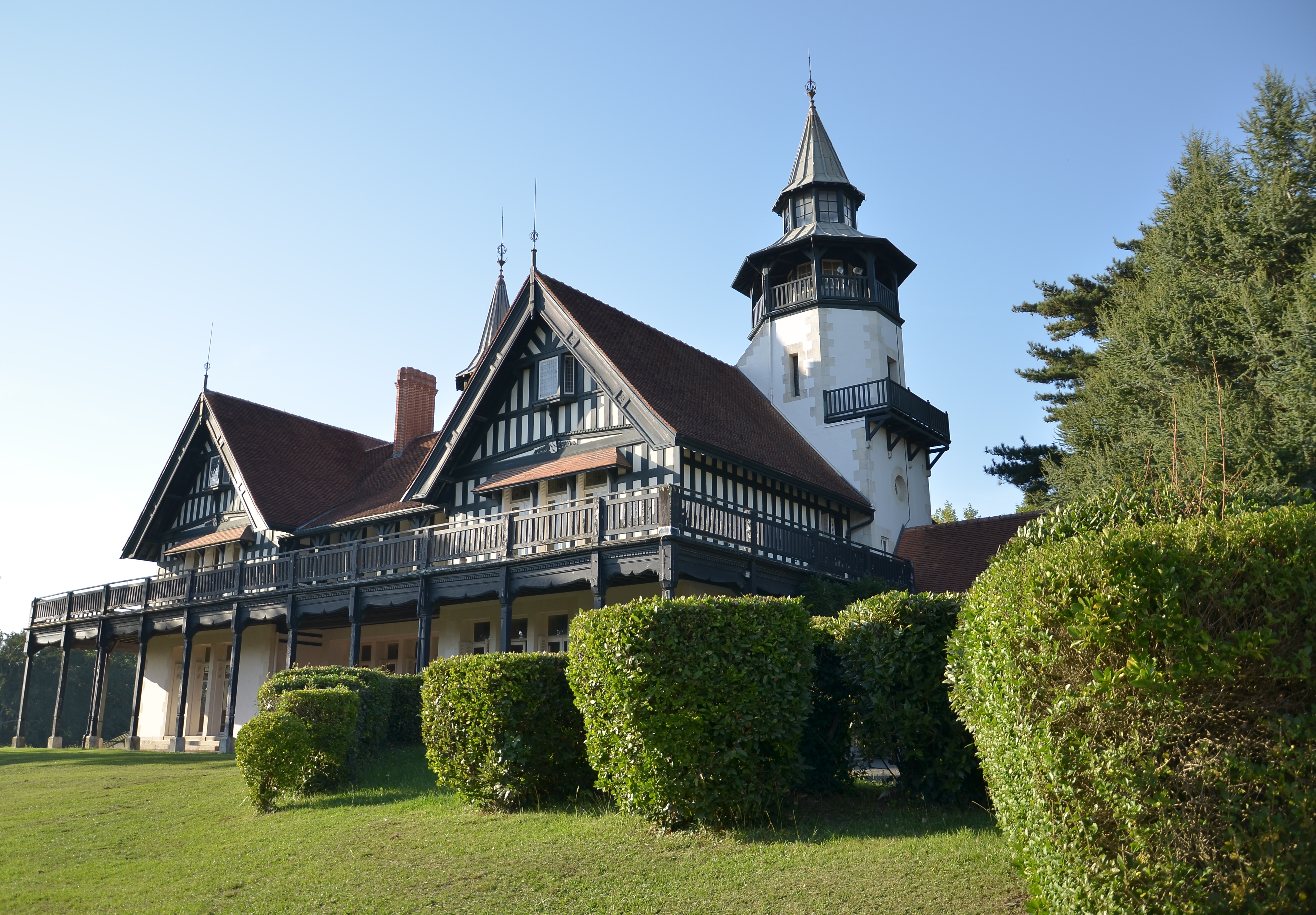 Château de Françon (EnrolledEnrolledClassified)